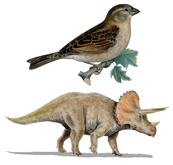 One cladistic definition of the Dinosauria; i.e. the node between Triceratops horridus and Passer domesticus.